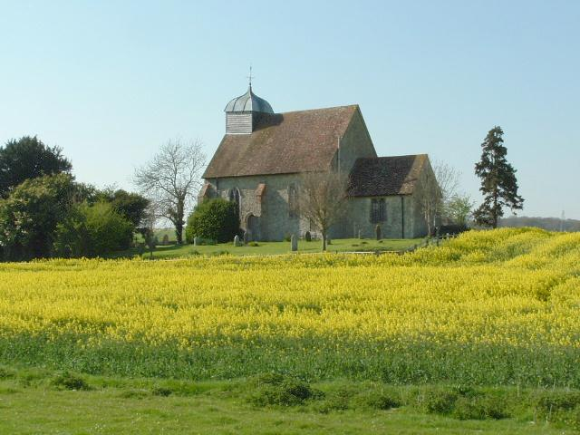 St. Rumwolds' Church, near Bonnington, Romney Marsh, Kent.